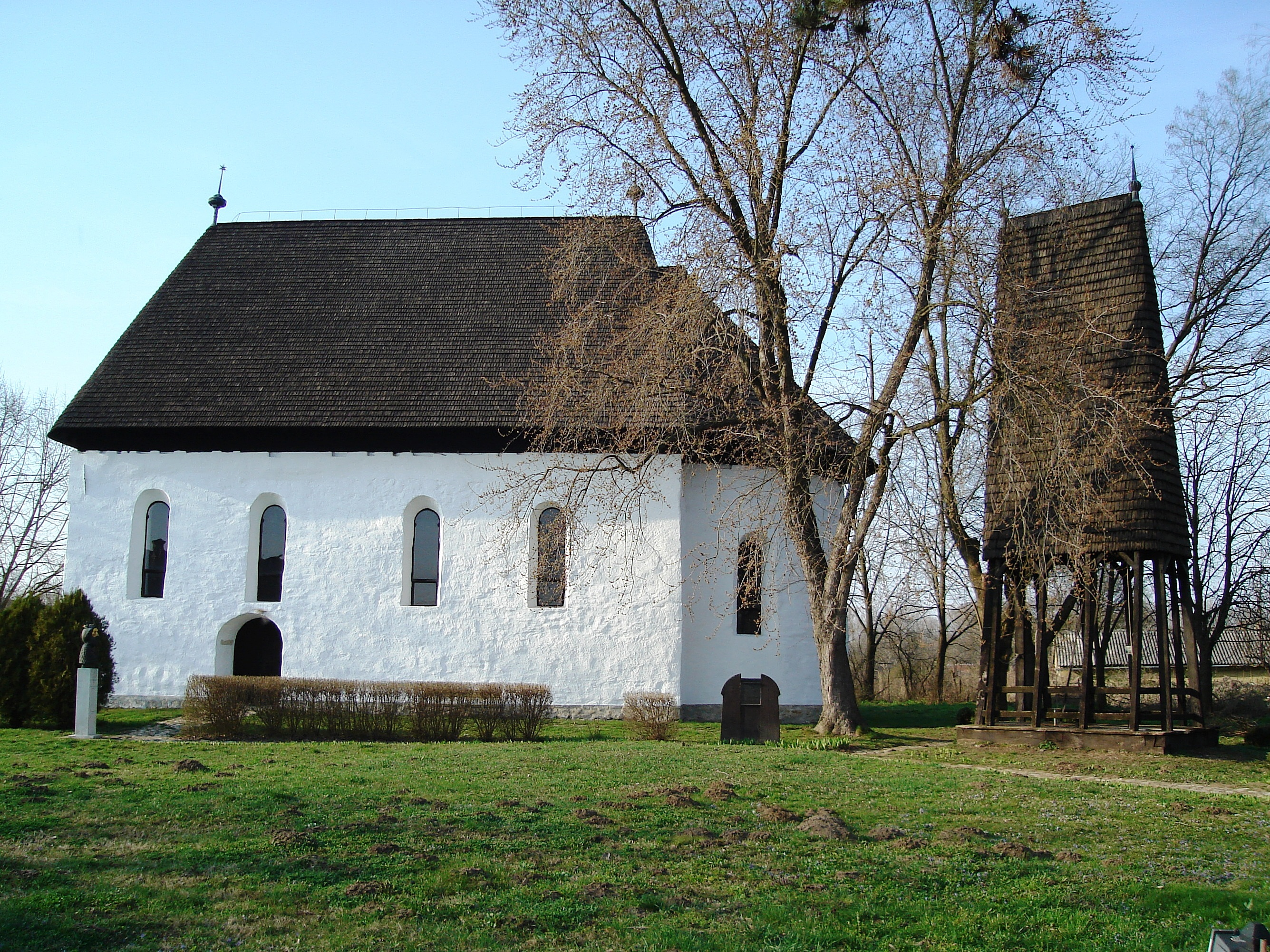 Reformed church in Szabolcs (North-Eastern Hungary).